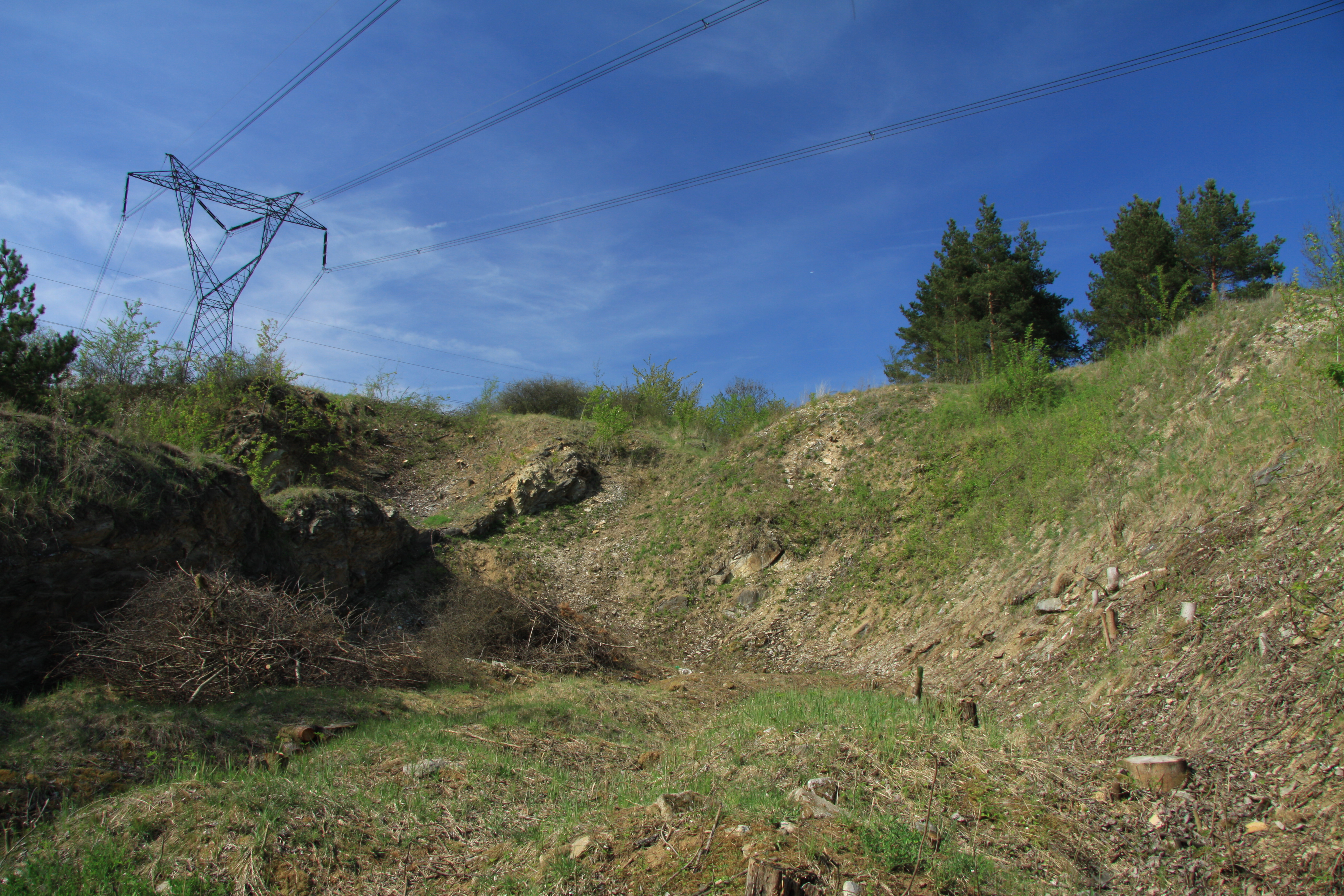 Natural monument Pastvina u Přešťovic in Strakonice District, Czech Republic Project: Chráněná území.